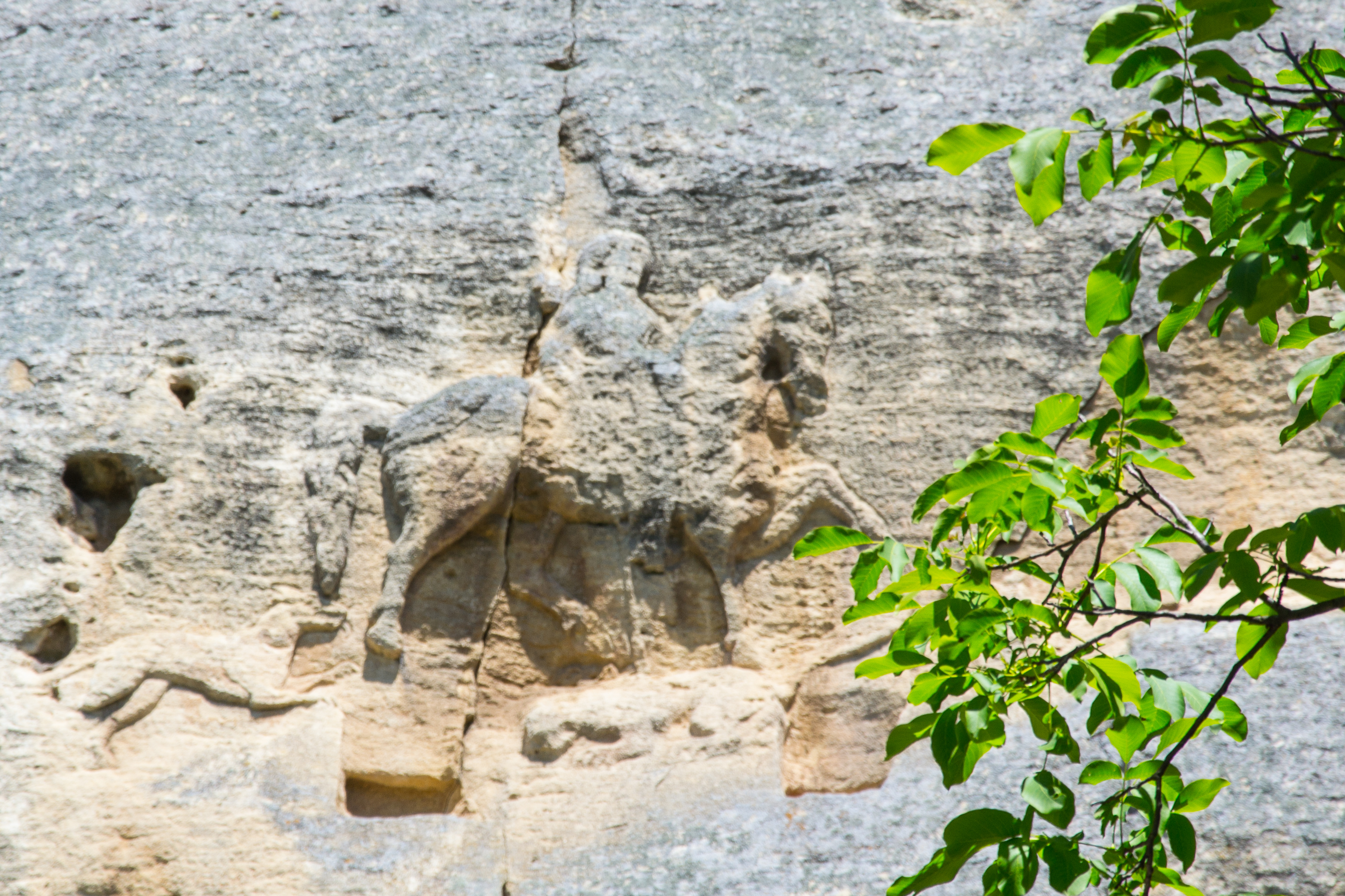 Madara Rider, National historical archaeological reserve, Bulgaria